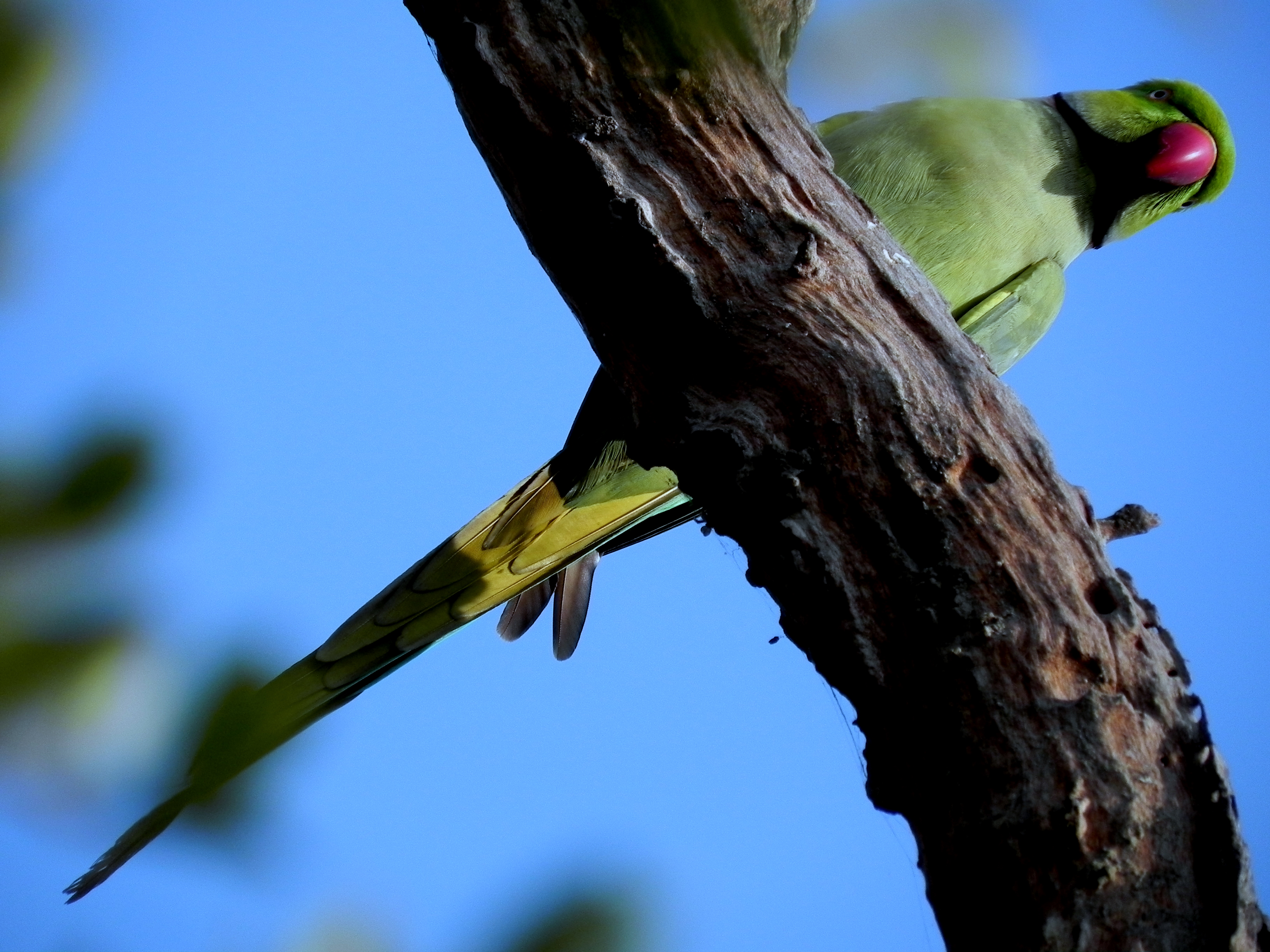 Common Parakeet, one of the many landbirds species found at Keoladeo National Park. This photograph was taken during my recent visit to Keoladeo National Park in Bharatpur, Rajasthan, a designated World Heritage Site under criteria x of UNESCO convention.